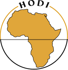 This is the official logo for HODI, owned by the organization itself.